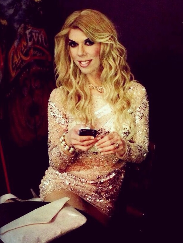 Kelly Mantle at the world premiere of her film "Confessions of a Womanzier" at the Cinequest Film Festival in San Jose.